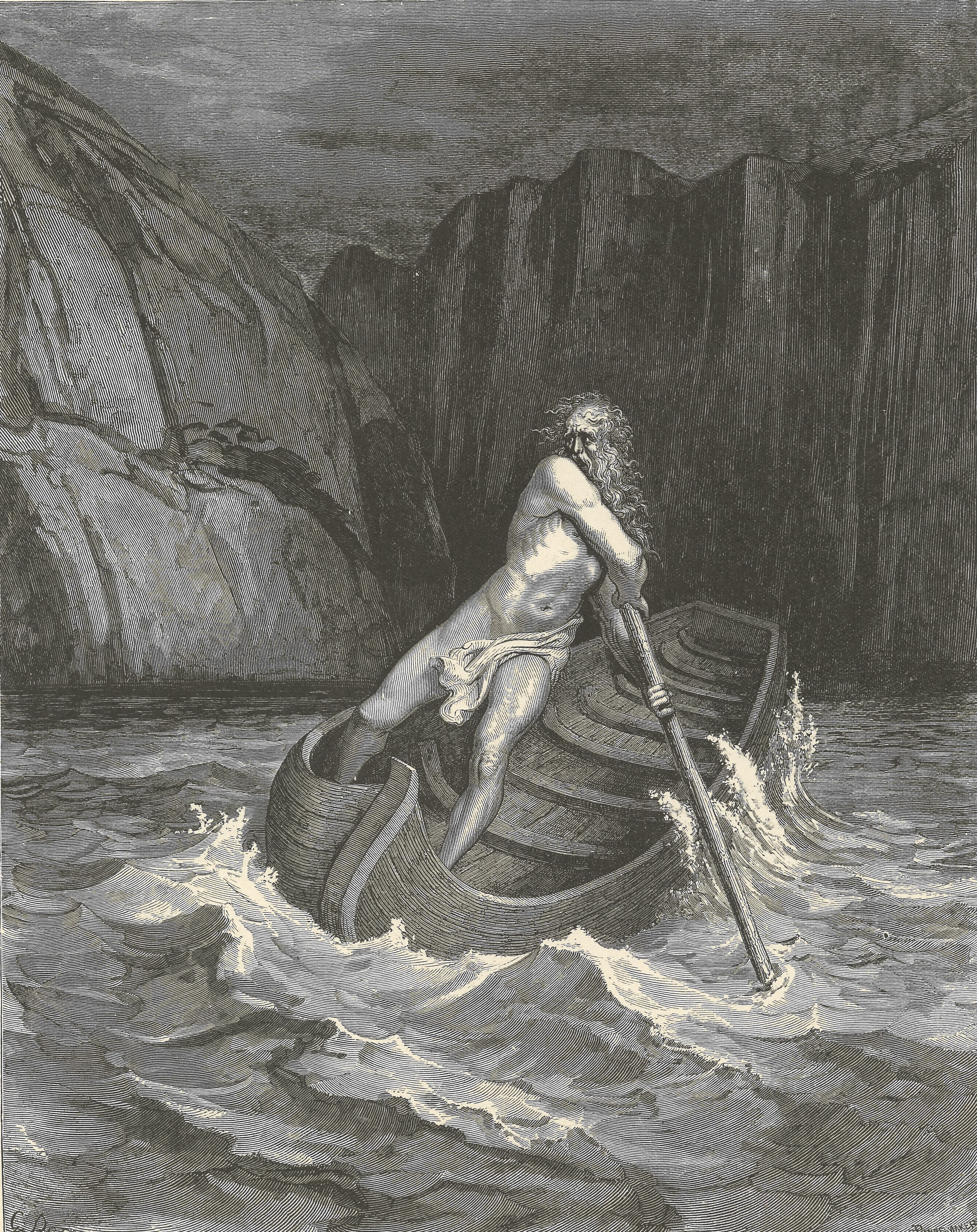 This is one of the original prints, scanned at 600 dpi, it depicts Charon from the Divine Comedy, made by Gustave Dore. This is a cropped image version.